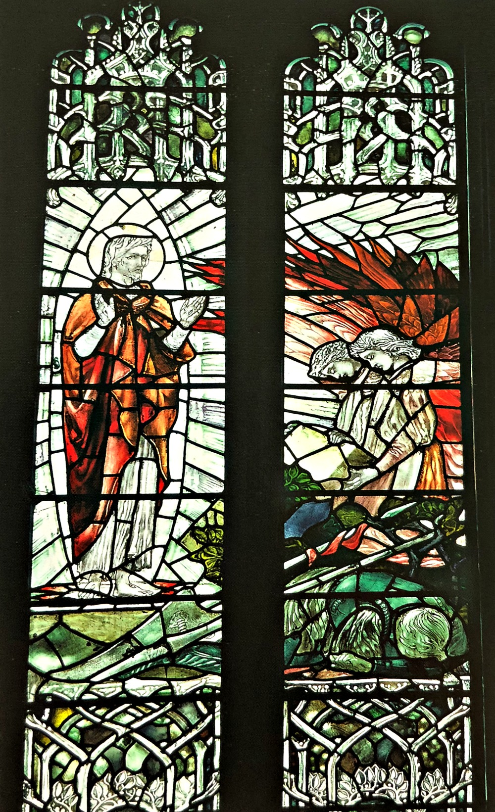 Detail of Resurrection window (1893), St. Clement's Church, Boscombe, Dorset by Christopher Whall